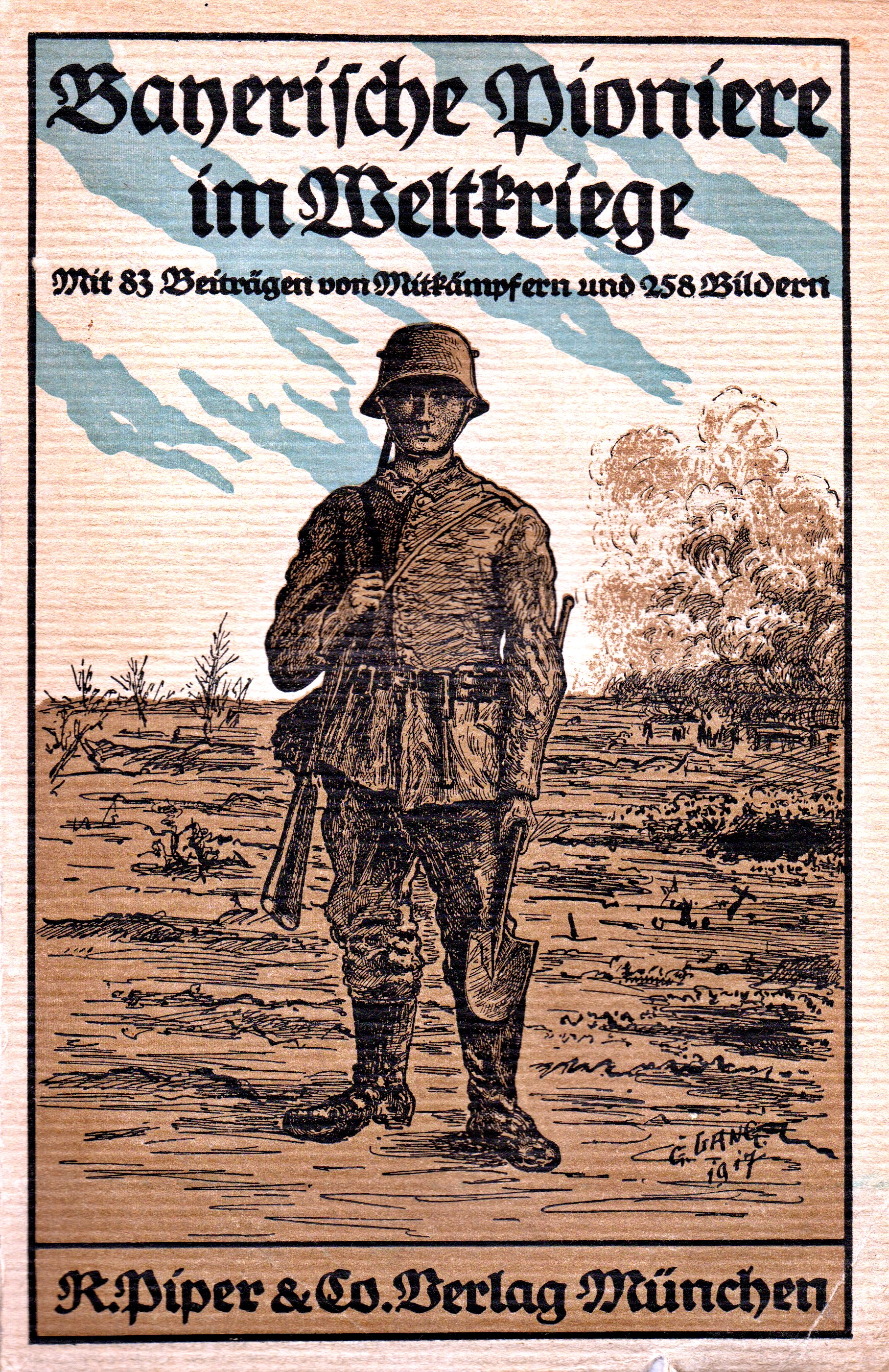 Georg Lang Bucheinband 1917